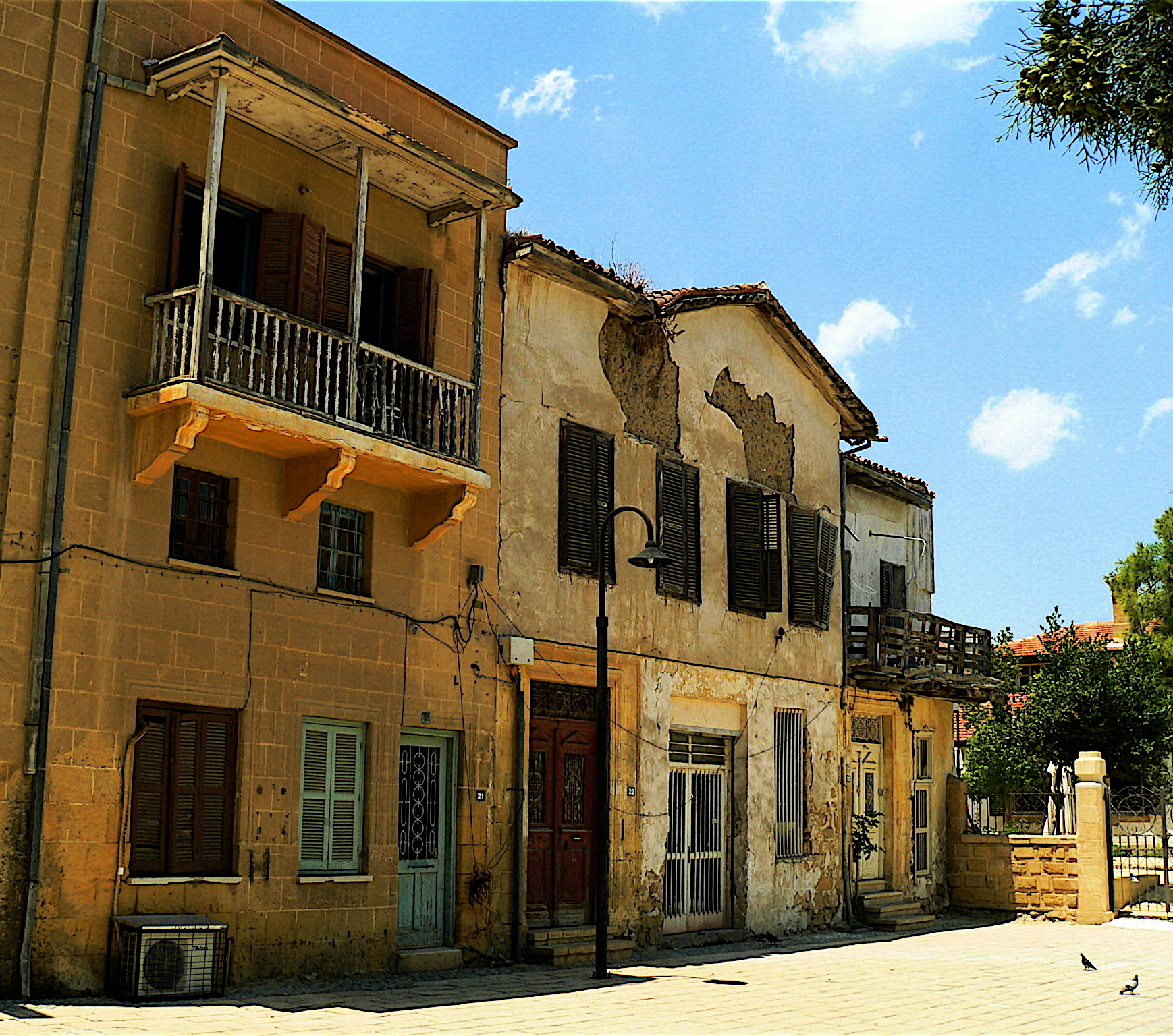 Houses in Nicosia (Turkish side), Cyprus